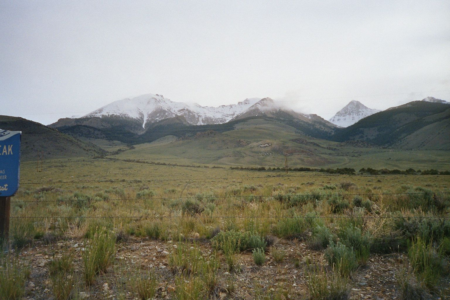 Leatherman Peak, 12,228 feet (3727 m), second highest in Idaho, in the Lost River Range in eastern Custer County.